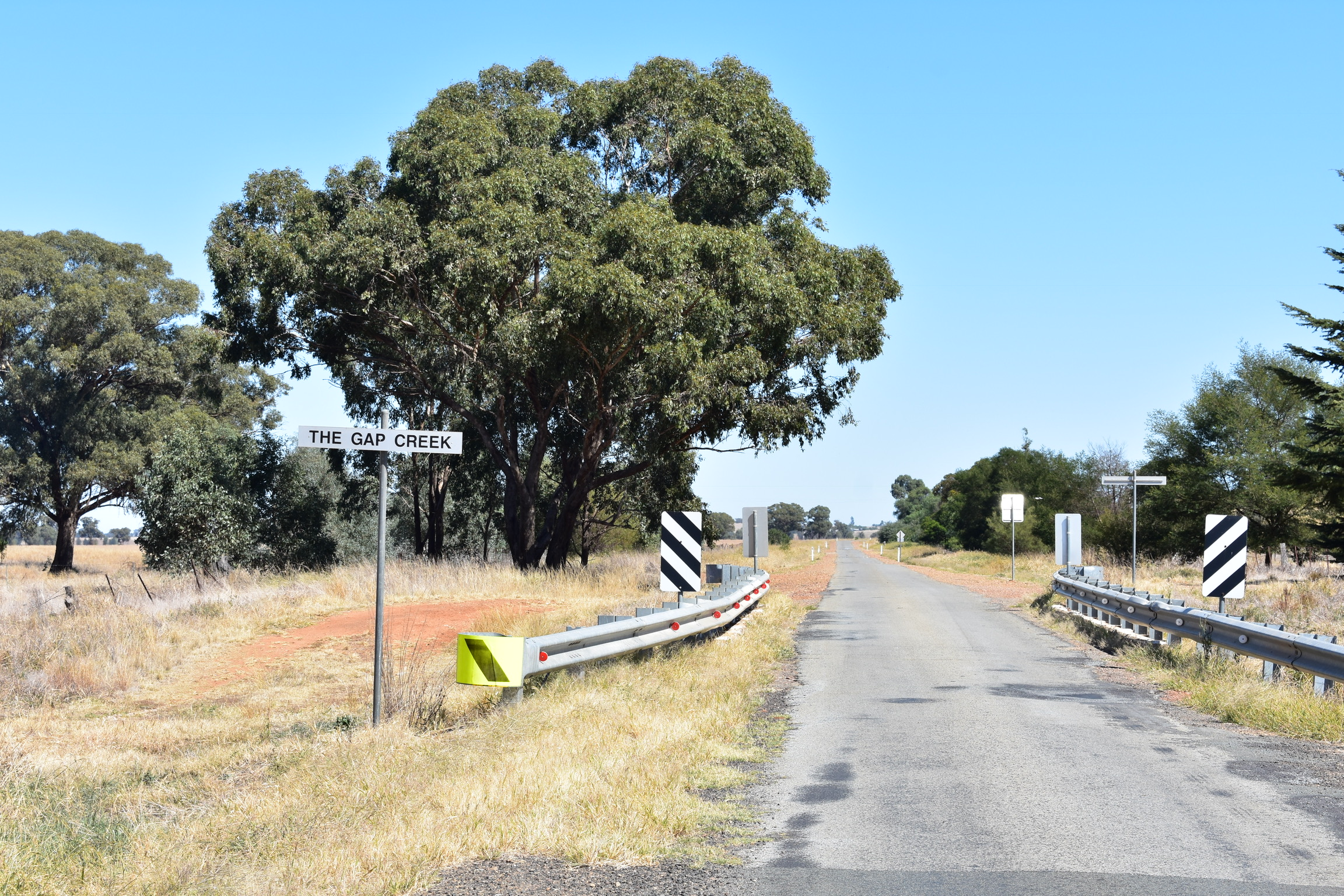 The Gap Creek, The Gap Road, The Gap, New South Wales, Australia